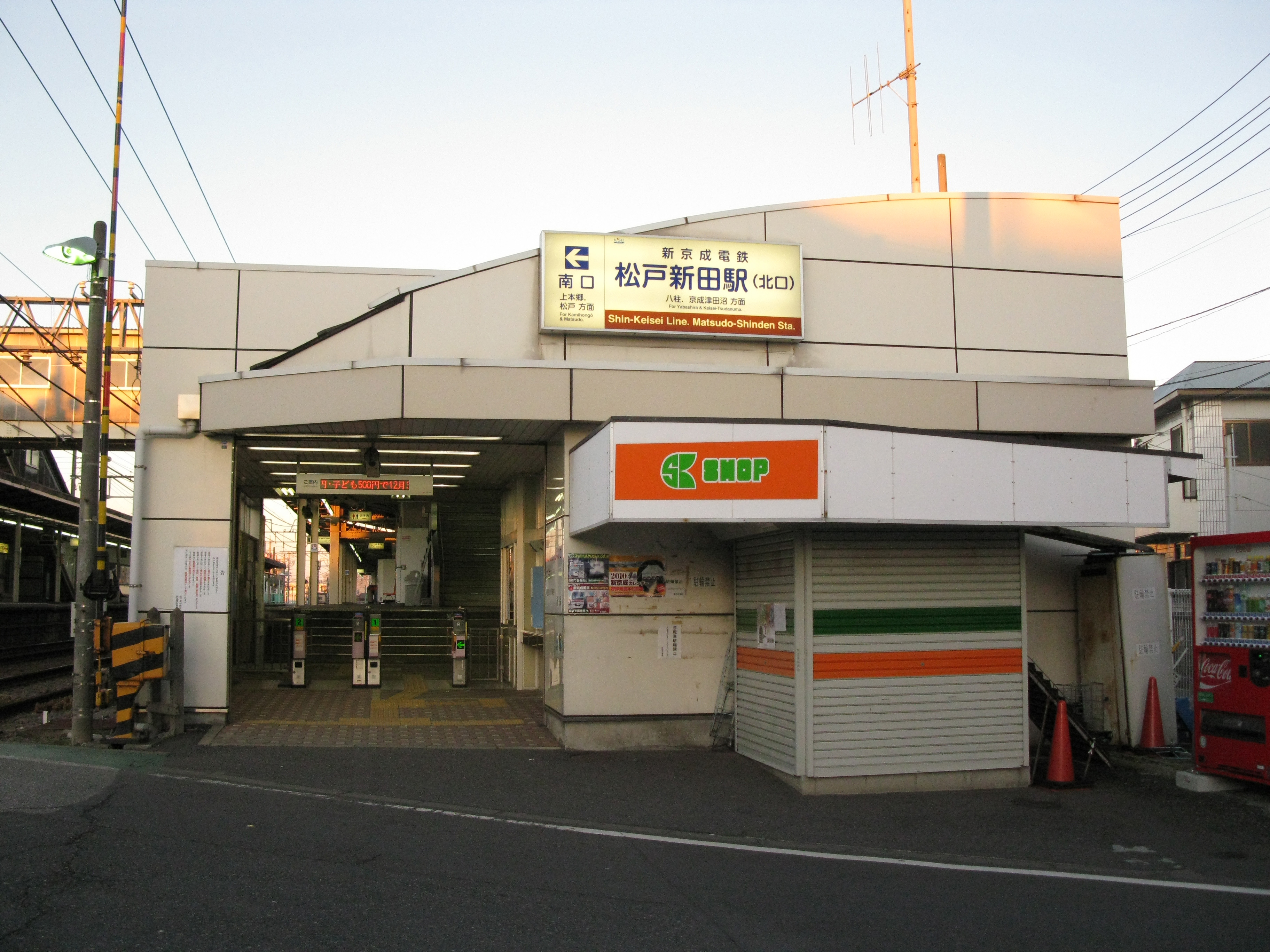 Matsudo-Shinden Station north entrance (Shin-Keisei Electric Railway Shin-Keisei Line)